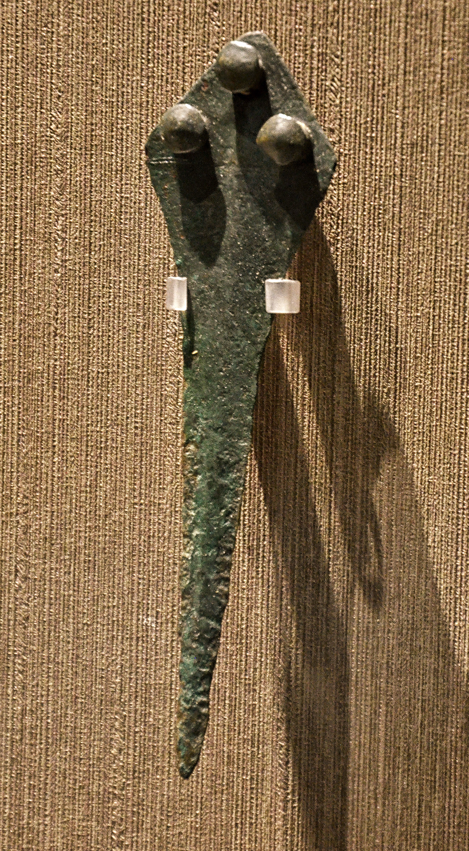 Bronze Age dagger in the National Museum of History in Tirana, Albania